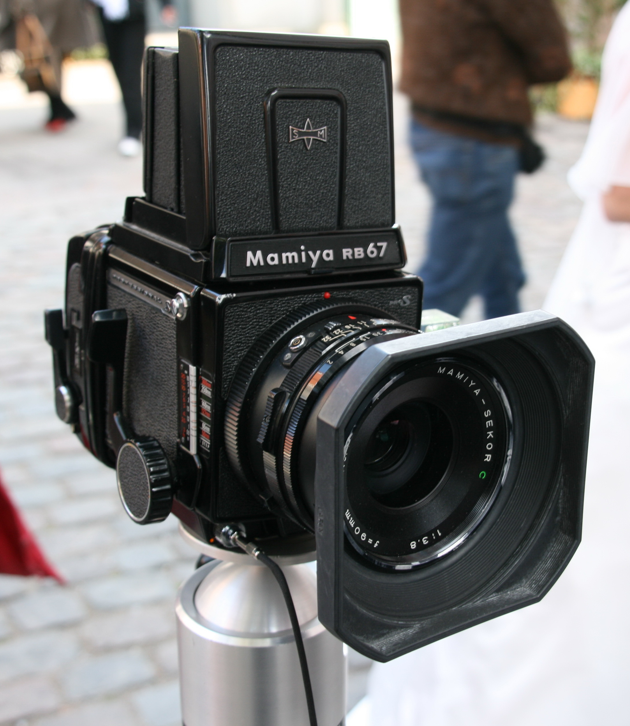 Mamiya RB67